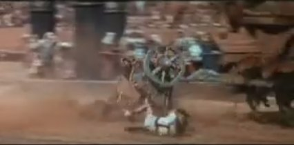 Wreckage during famous chariot race scene in Ben-Hur (1959)